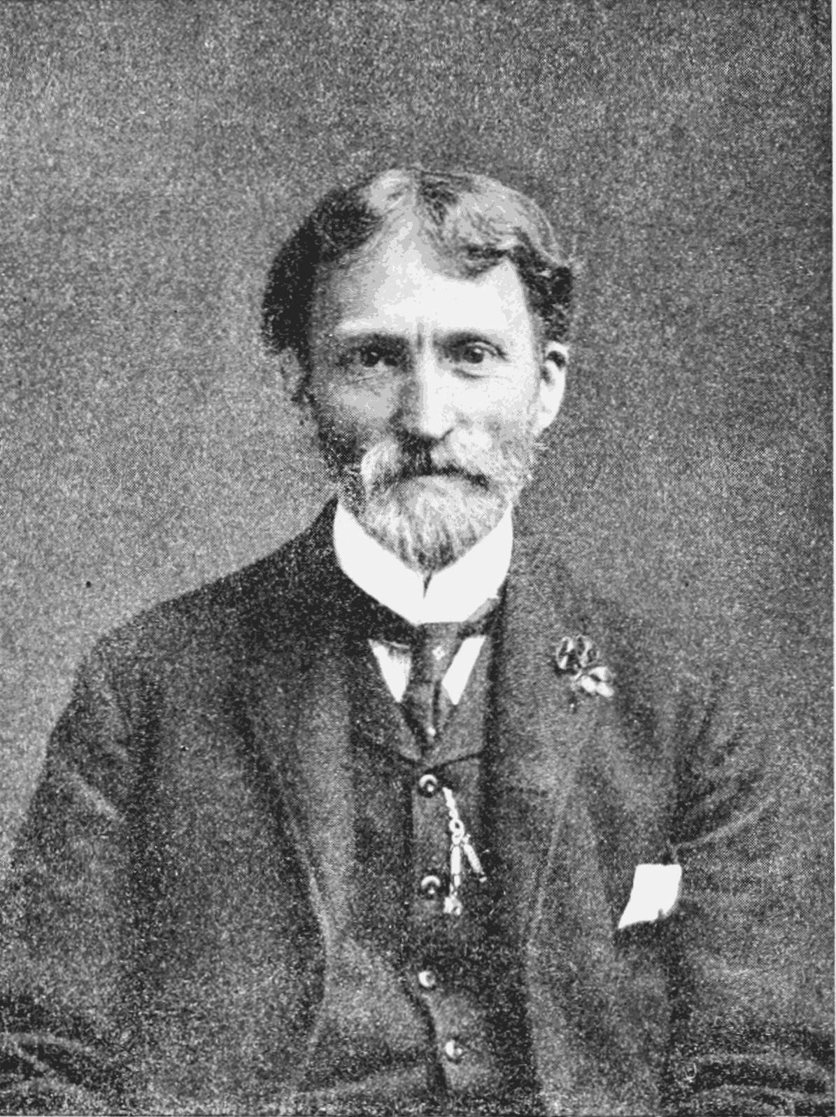 Walter Hough 1859-1935